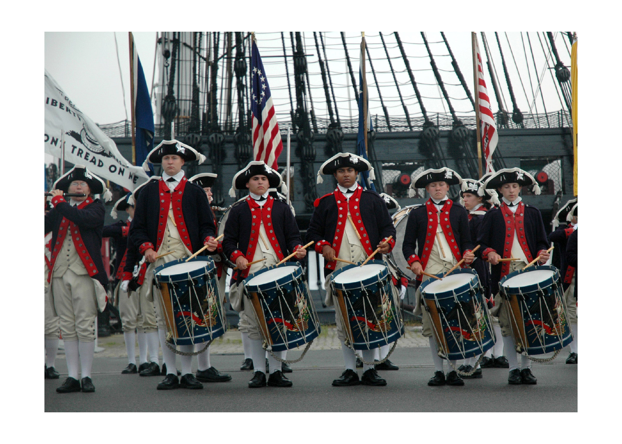 BOSTON (July 18, 2007) – Michigan’s Plymouth Fife and Drum Corps performs American Revolution-era music in front of USS Constitution. Formed in 1971, the corps is made up of 12– to 18-year-old volunteers, who perform 40 to 50 times annually throughout the United States and Canada. At 209 years old, USS Constitution is the oldest commissioned warship afloat in the world. She is manned by 64 active duty Sailors and visited by nearly half a million tourists annually. U.S. Navy photo by Seaman Nola Sparks (RELEASED)